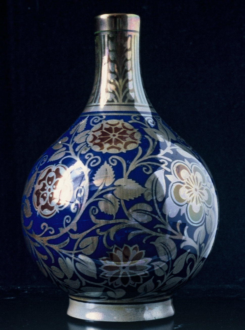 Vase, decorative lustre, earthenware, with painted design in silver lustre glazes, Royal Lancastrian ware. "Globular vase with leaf design in silver lustre on blue ground".